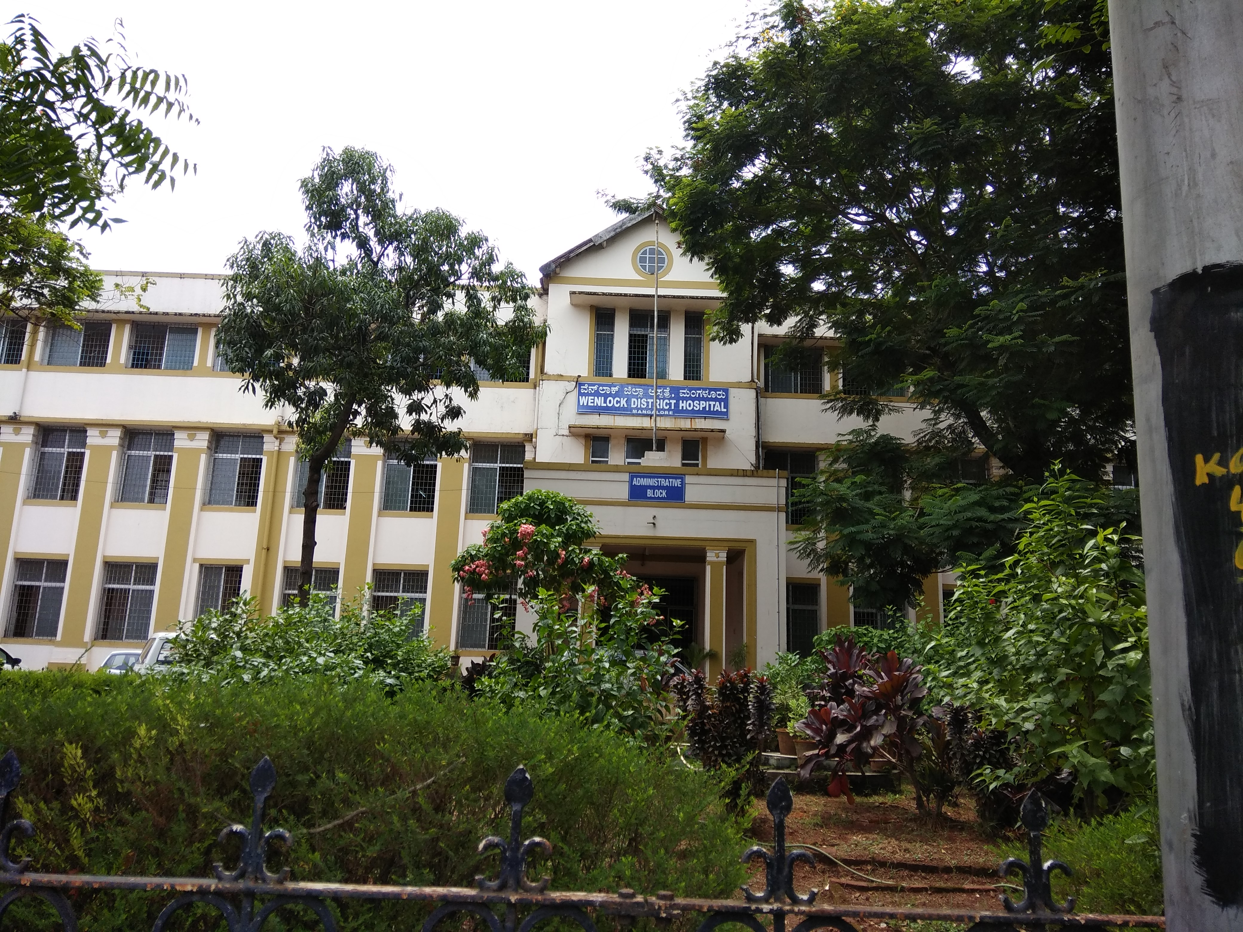 Wenlock Hospital Mangalore India ಕನ್ನಡ: ವೆನ್ಲಾಕ್ ಸರ್ಕಾರಿ ಆಸ್ಪತ್ರೆ ಹಂಪನಕಟ್ಟೆ ಕುಡ್ಲಾ ಕರ್ನಾಟಕೊ